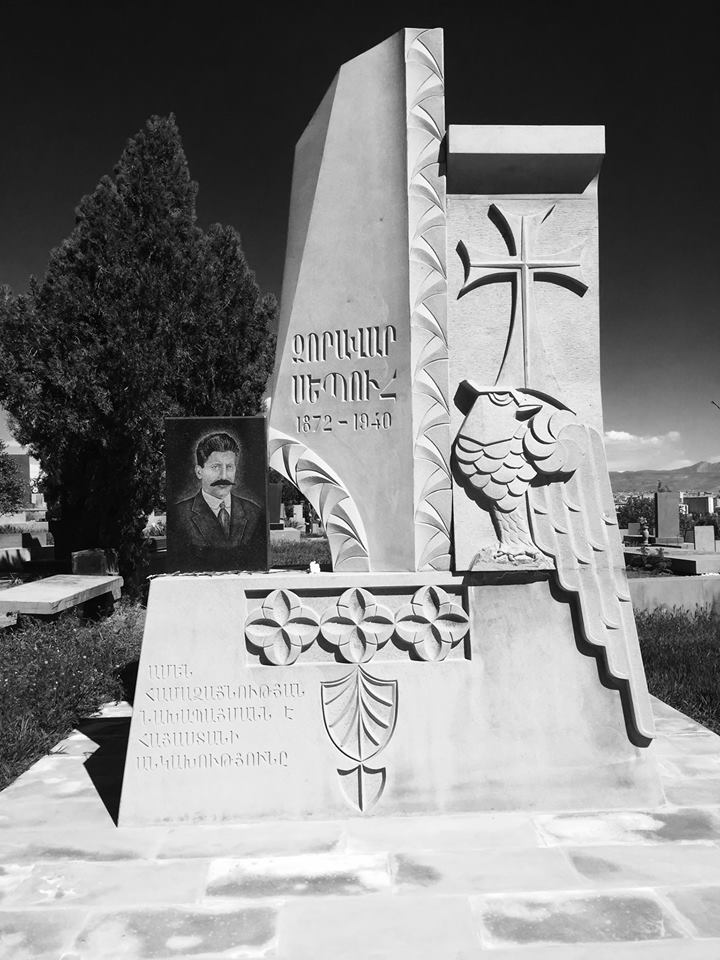 On Thurs., Nov. 20, 2014, the remains of General Sebouh (Arshak Nersesian), a prominent leader of the Armenian liberation movement in the late 19th and 20th centuries, were ceremonially buried in Yerevan’s military cemetery at Yerablur (Photo: Rupen Janbazian).